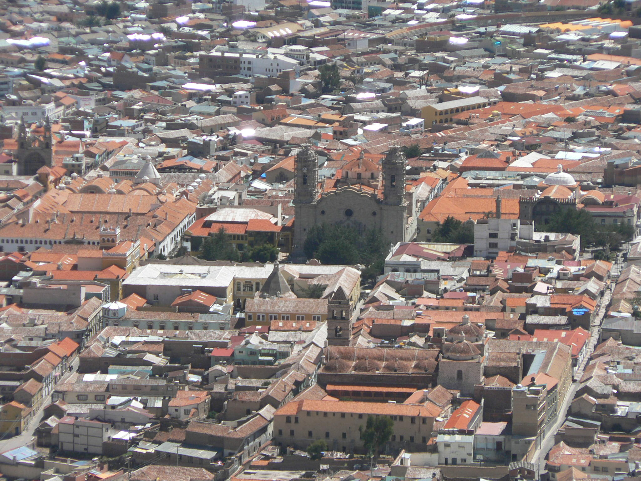 Central part of Potosí, Bolivia as seen from Cerro chico.